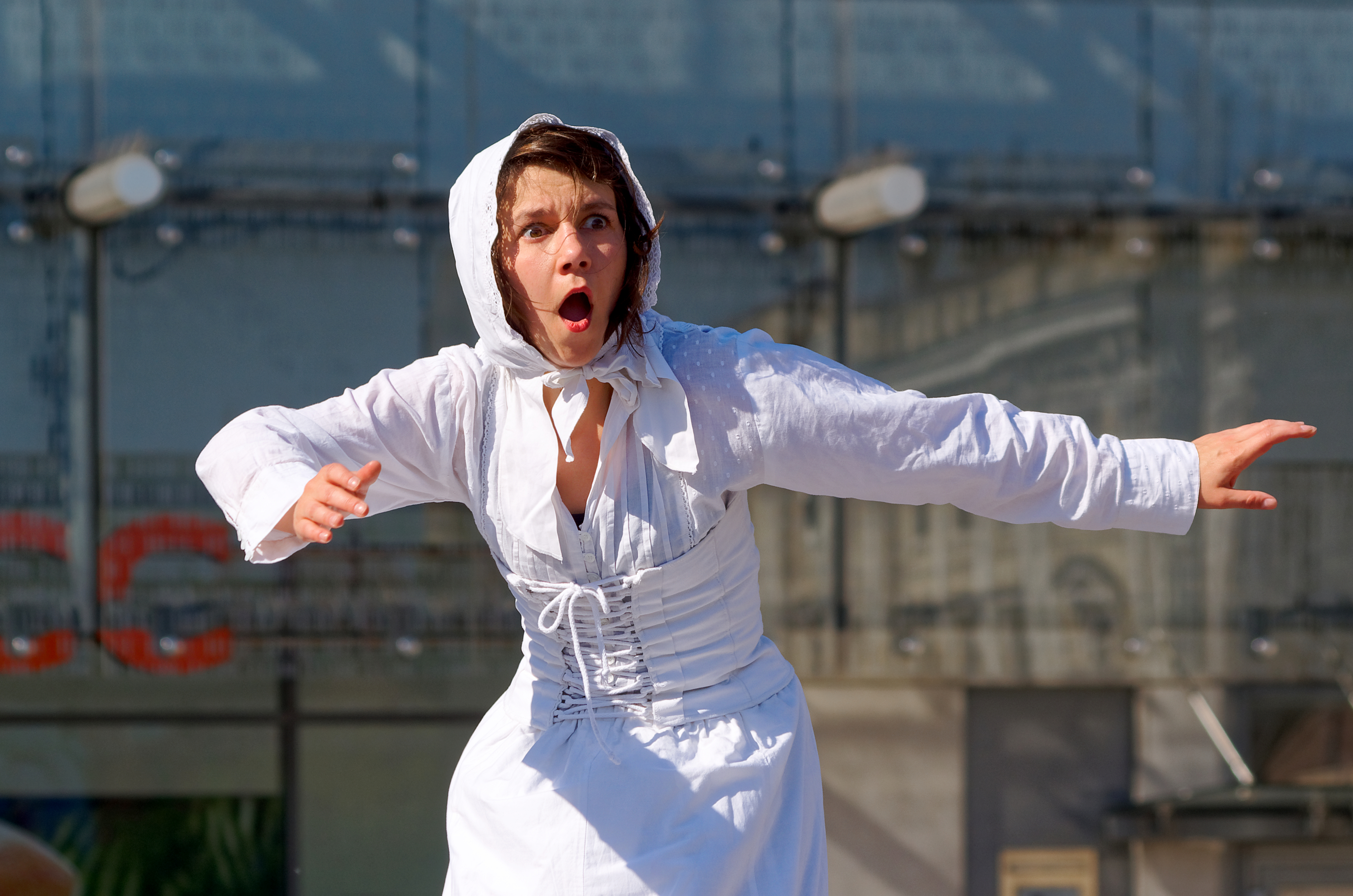 Actress of Scena Kalejdoskop Theatre during the show "Don Juan's Heart"